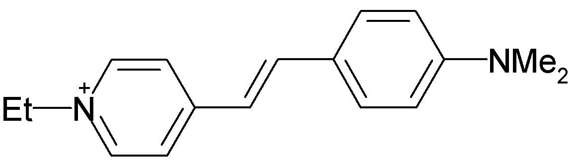 CyanineDye